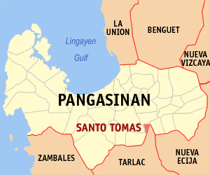 Map of Pangasinan showing the location of Santo Tomas